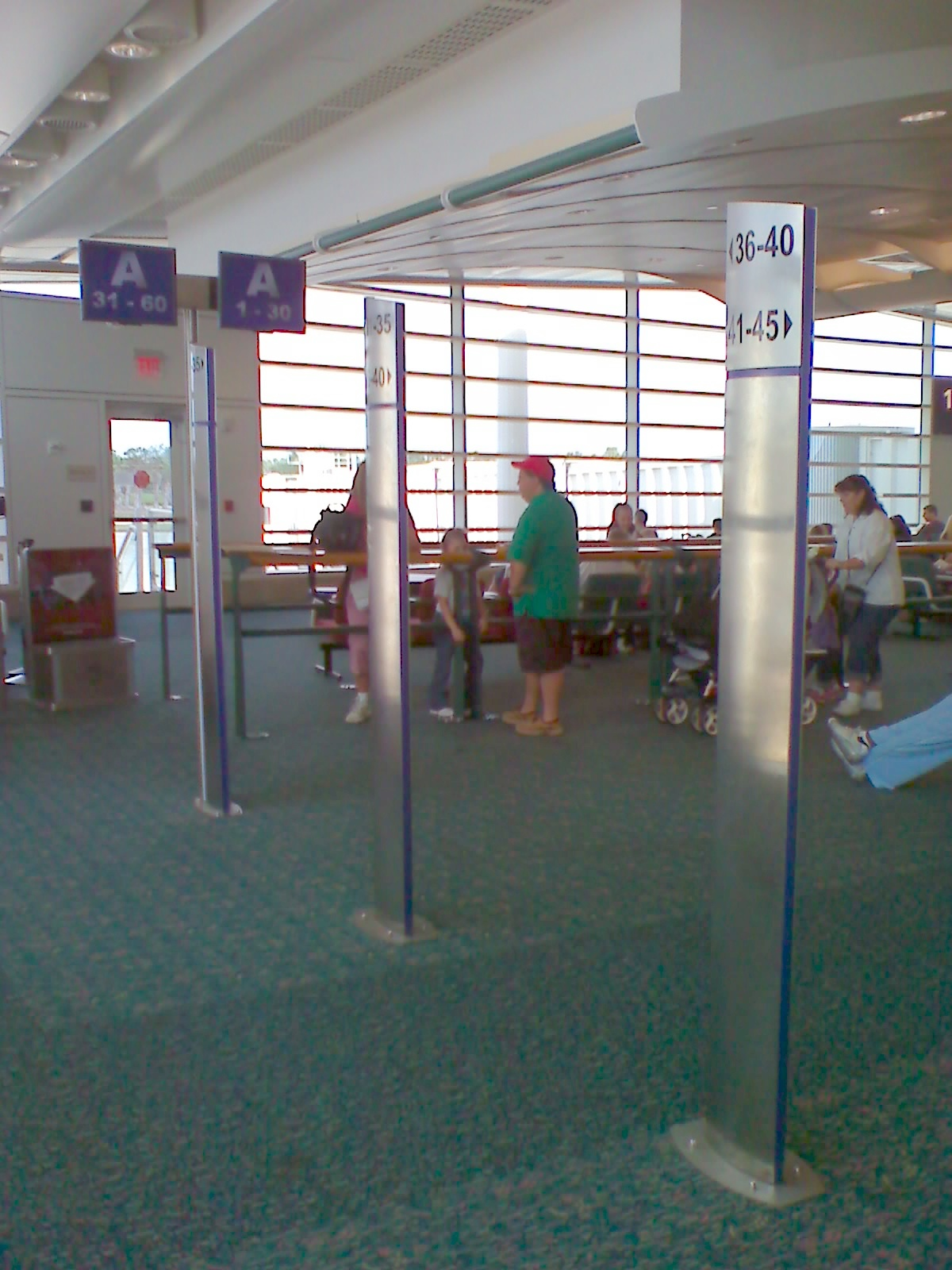 Gate area of Southwest Airlines at Orlando International Airport